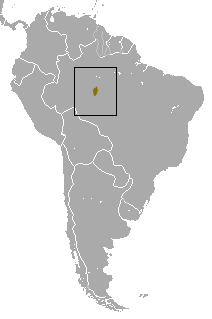 Manicore Marmoset (Mico manicorensis) range